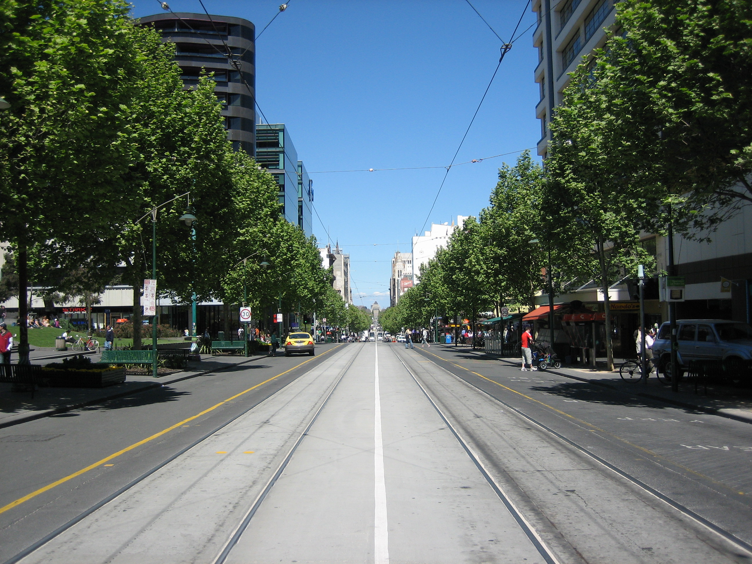 Swanston Street North - Looking South towards the Shrine Photographer: Simon Laird